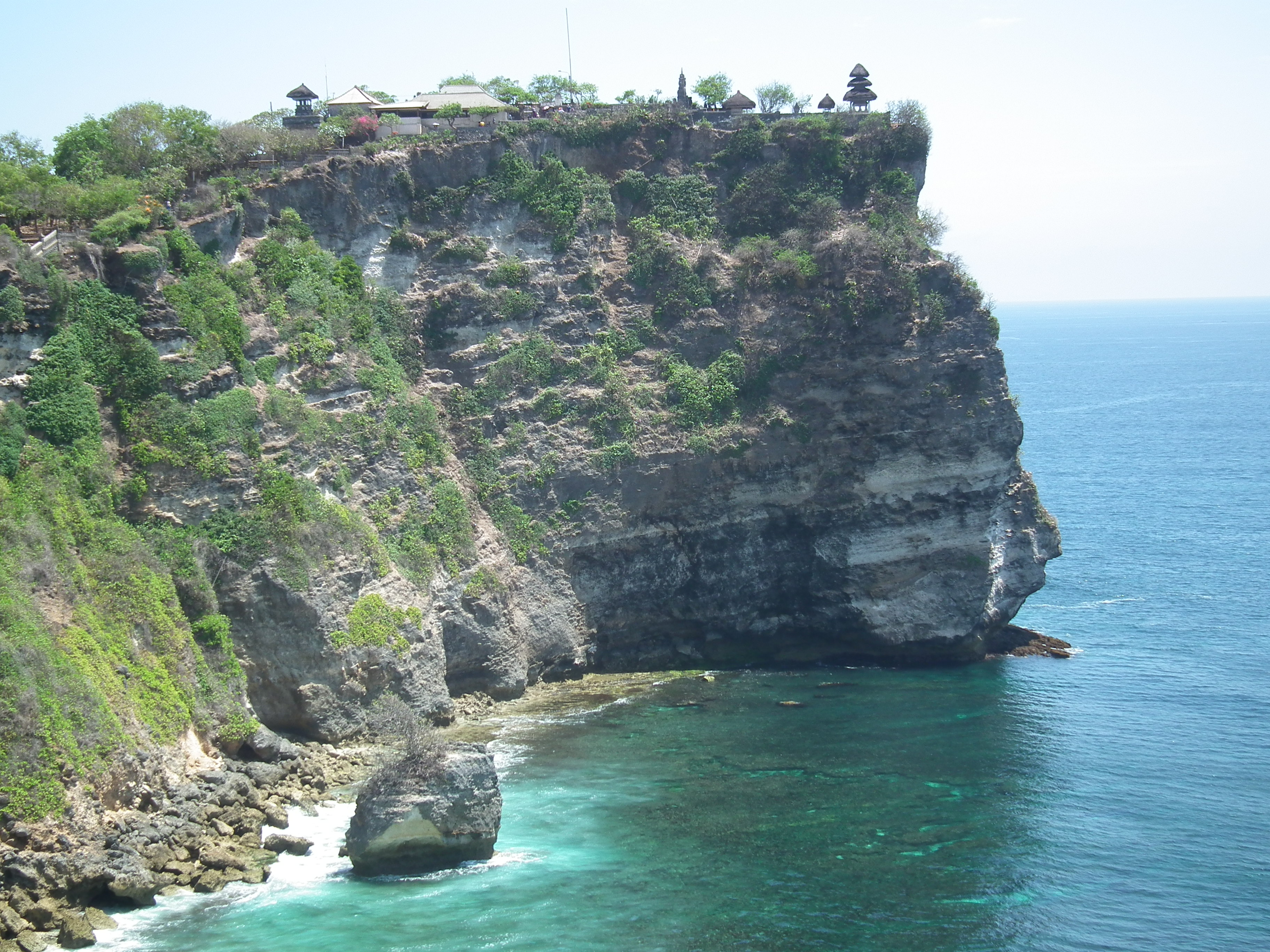 Uluwatu Temple, Bali